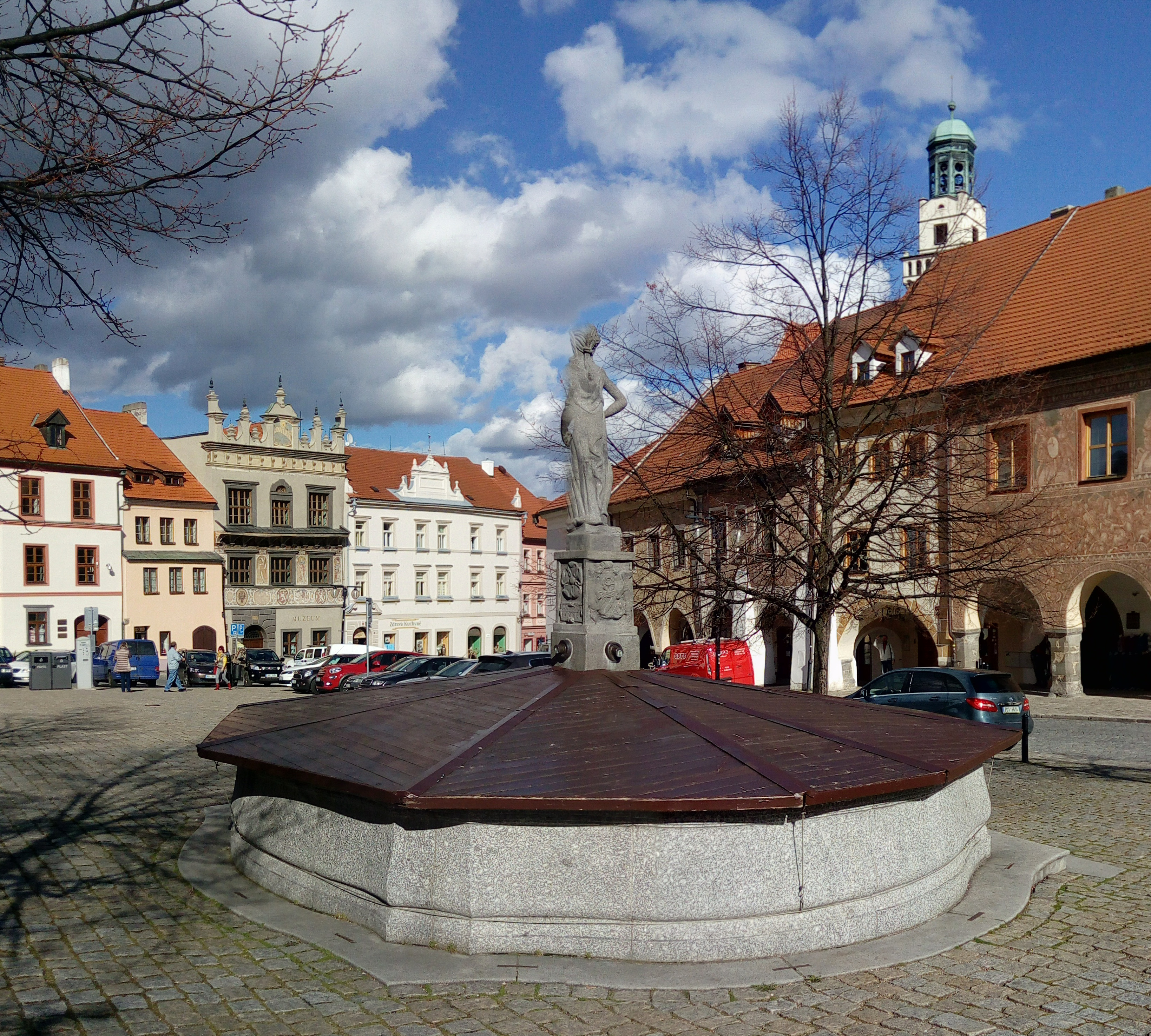 Fountain in the main square in Prachatice, south Bohemia, Czech Republic